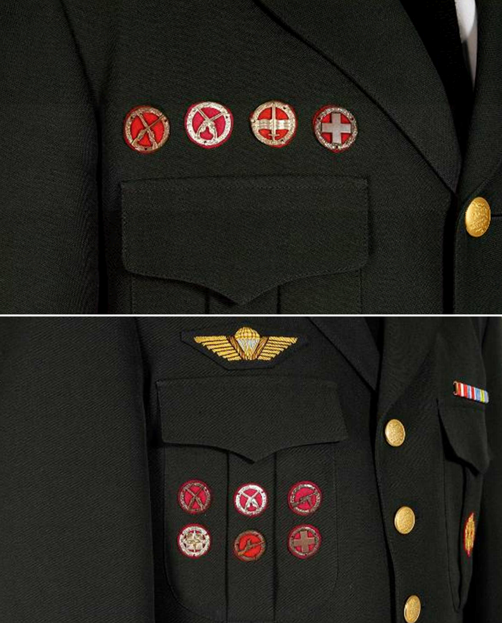 Two different way to wear skill badges on an army M/69 uniform